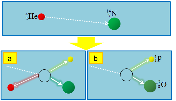 A nuclear reaction observed by Rutherford using a cloud chamber. When an alpha ray strikes nitrogen, reaction "a" (proton knock-off) does not occur; reaction "b" (α-p) occurs.)